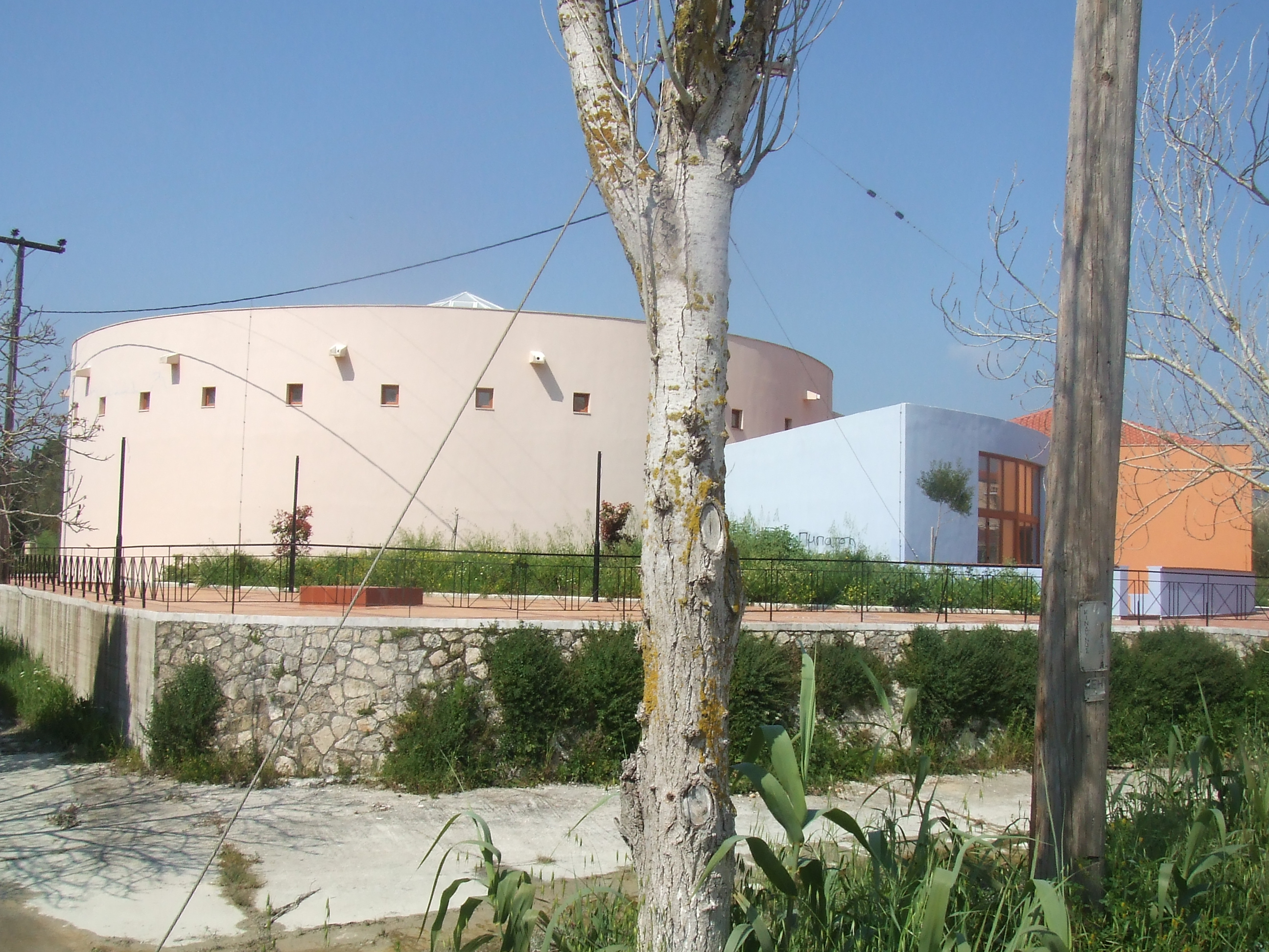 The new Lixouri Museum, in Lixouri Kefalonia.